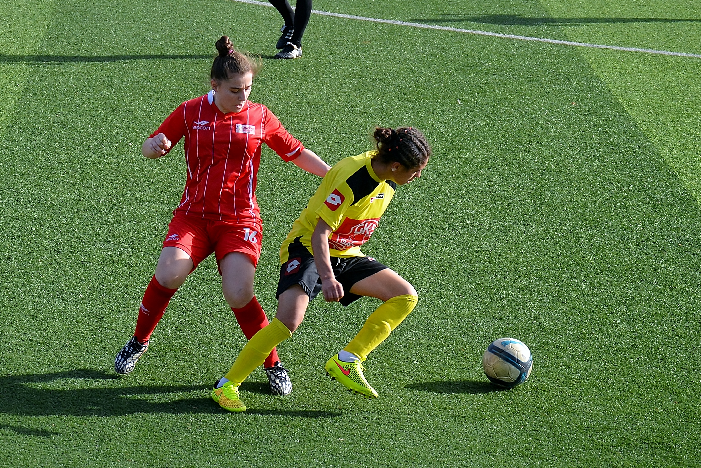 Zelal Baturay playing for Gazikentspor in the 2014-15 away match against Ataşehir Belediyespor.